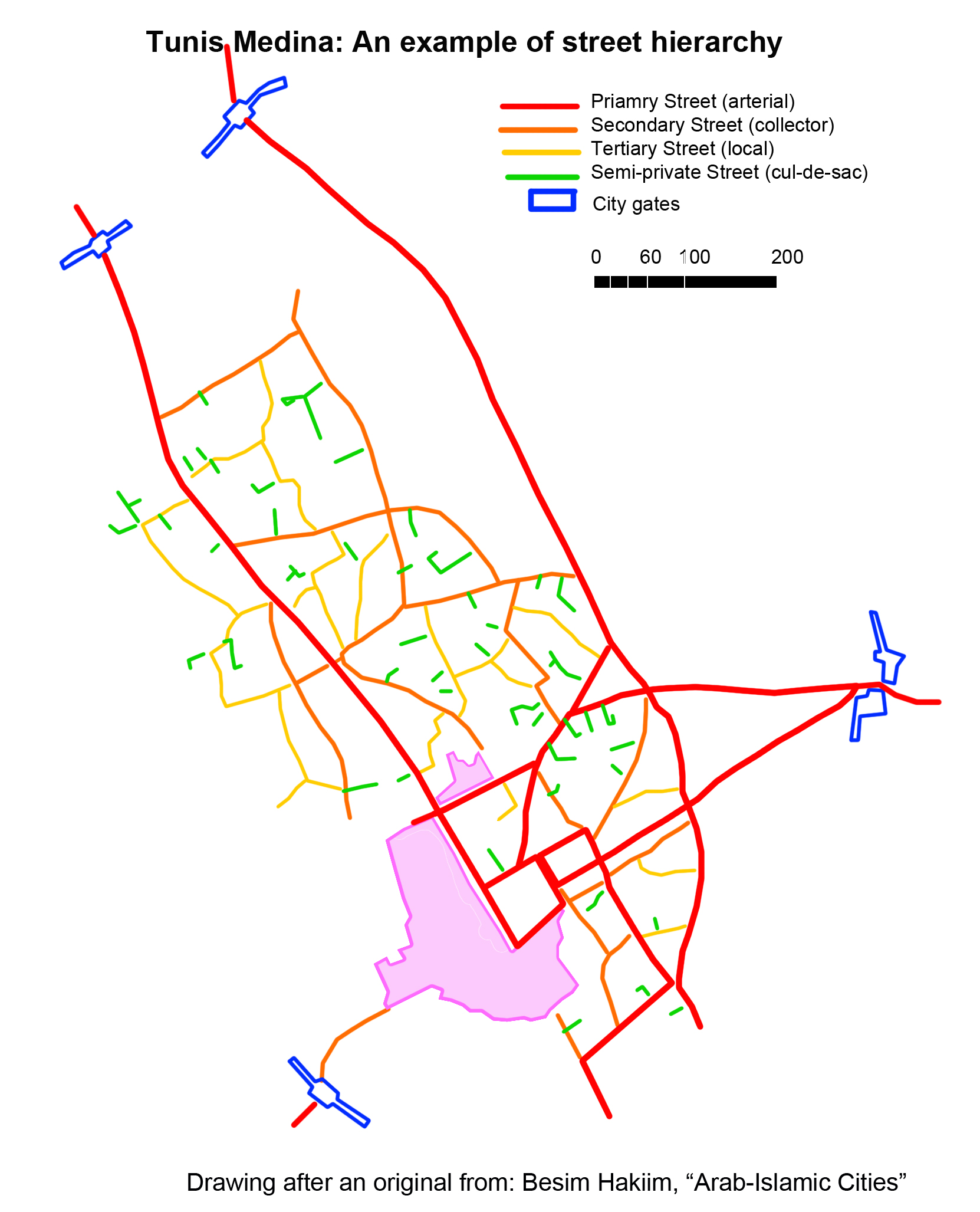 A diagram of the hierarchical street network in Medina, Tunis based on: Besim Hakim 1986, Arabic-Islamic Cities – Building and Planning Principles KPI Ltd, London